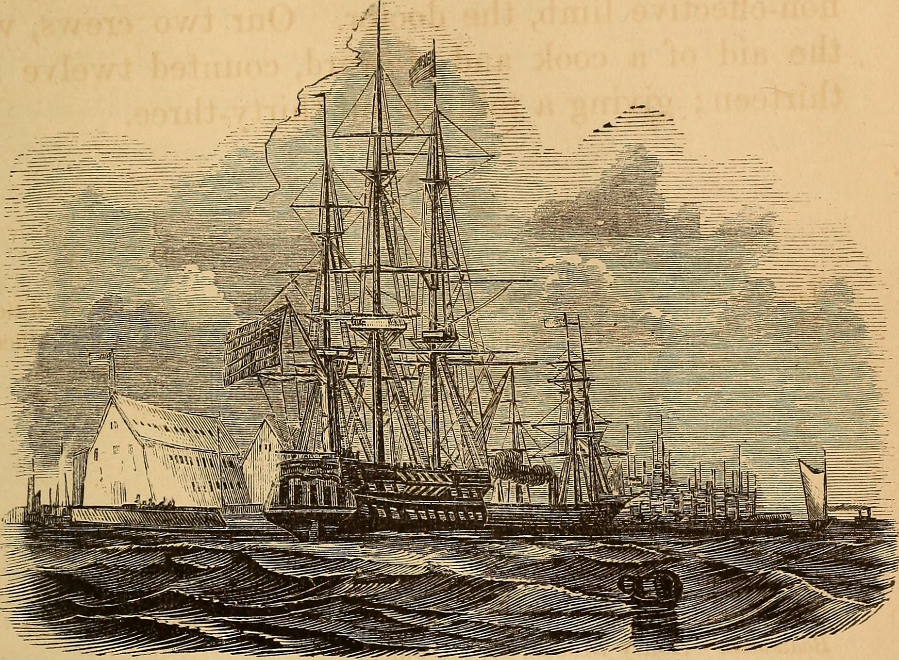 Title: The frozen zone and its explorers; a comprehensive record of voyages, travels, discoveries, adventures and whale-fishing in the Arctic regions for one thousand years Year: 1874 (1870s) Authors: Hyde, Alexander, 1814-1881 Baldwin, Abraham Chittenden, 1804-1887, joint author Gage, William Leonard, 1832-1889, joint author Shields, Charles W. (Charles Woodruff), 1825-1904 Subjects: Kane, Elisha Kent, 1820-1857 Polaris (Ship) Publisher: Hartford, Conn. (etc.) Columbia book company Text Appearing Before Image: nding the Rescue. Passed Midshipman—Robert R. Carter, actmg master and first officer. - Boatswain—Henry Brooks, second officer. Benjamin Vreeland, M.D., assistant surgeon. About one oclock on the 2 2d of May, the asthmaticold steam-tug that was to be our escort to the seamoved slowly off. Our adieux from the Navy Yardwere silent enough. We cost our country no compli-mentary gunpowder; and it was not until we gotabreast of the city that the crowded wharves andshipping showed how much that bigger communitysympathized with our undertaking. Cheers and hur-ras followed us till we had passed the Battery, andthe ferry-boats and steamers came out of their trackto salute us in the bay. The sky was overcast before we lost sight of thespire of old Trinity; and by evening it had cloudedover so rapidly, that it was evident we had to look fora dirty night outside. Off Sandy Hook the wind fresh-ened, and the sea grow so rough, that we were forcedto part abruptly frouL the friends who had kept us Text Appearing After Image: USS ADVANCE AND USS RESCUE AT NAVY YARD.